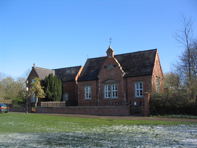 Clifton village hall Formerly the school, erected in 1871 by Henry Robert Clifton.